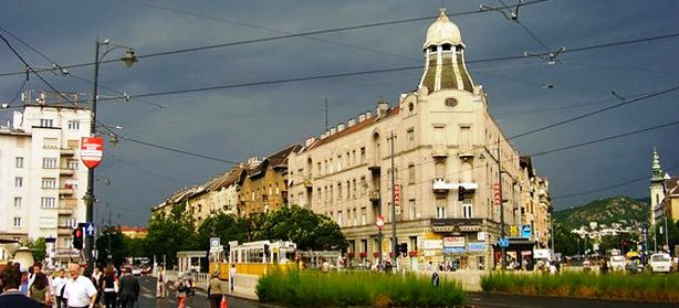 Zsigmond Móricz Square